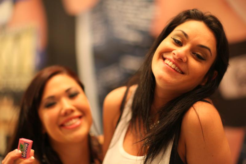 Charley Chase at the Hard Rock Hotel and Casino for the 2012 AEE Expo and AVN Awards.